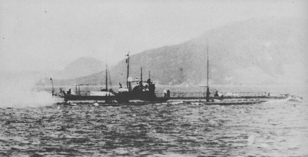 HIJMS Ro-15